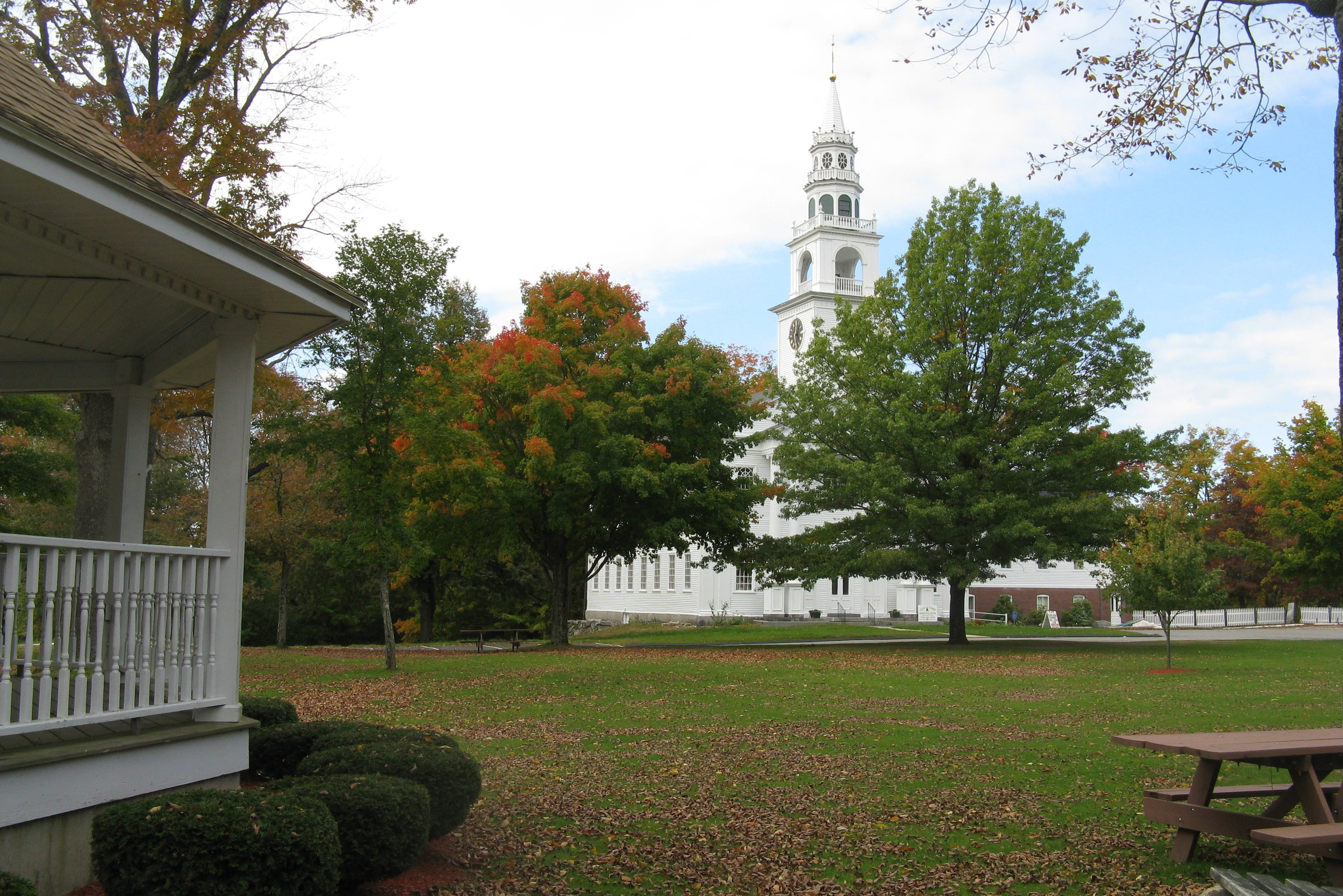 Templeton Common, Templeton Massachusetts